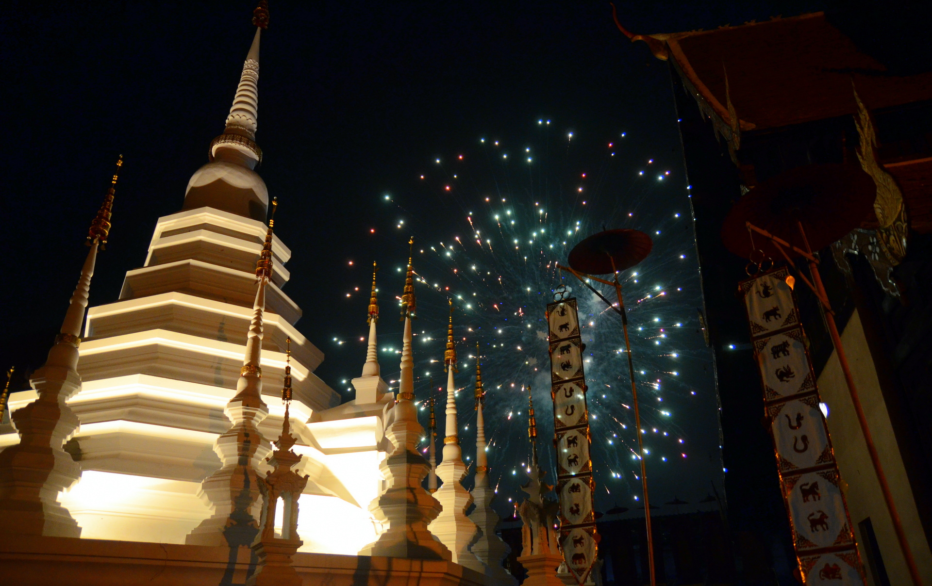 Fireworks explode up in the skies above Chiang Mai on the Sunday after the Loi Krathong (locally known as Yi Peng) festival. The photo was taken at Wat Phantao (Thai script: วัดพันเตา), the wooden temple immediately next to Wat Chedi Luang. The fireworks were part of the extended Loi Krathong festivities in Chiang Mai.